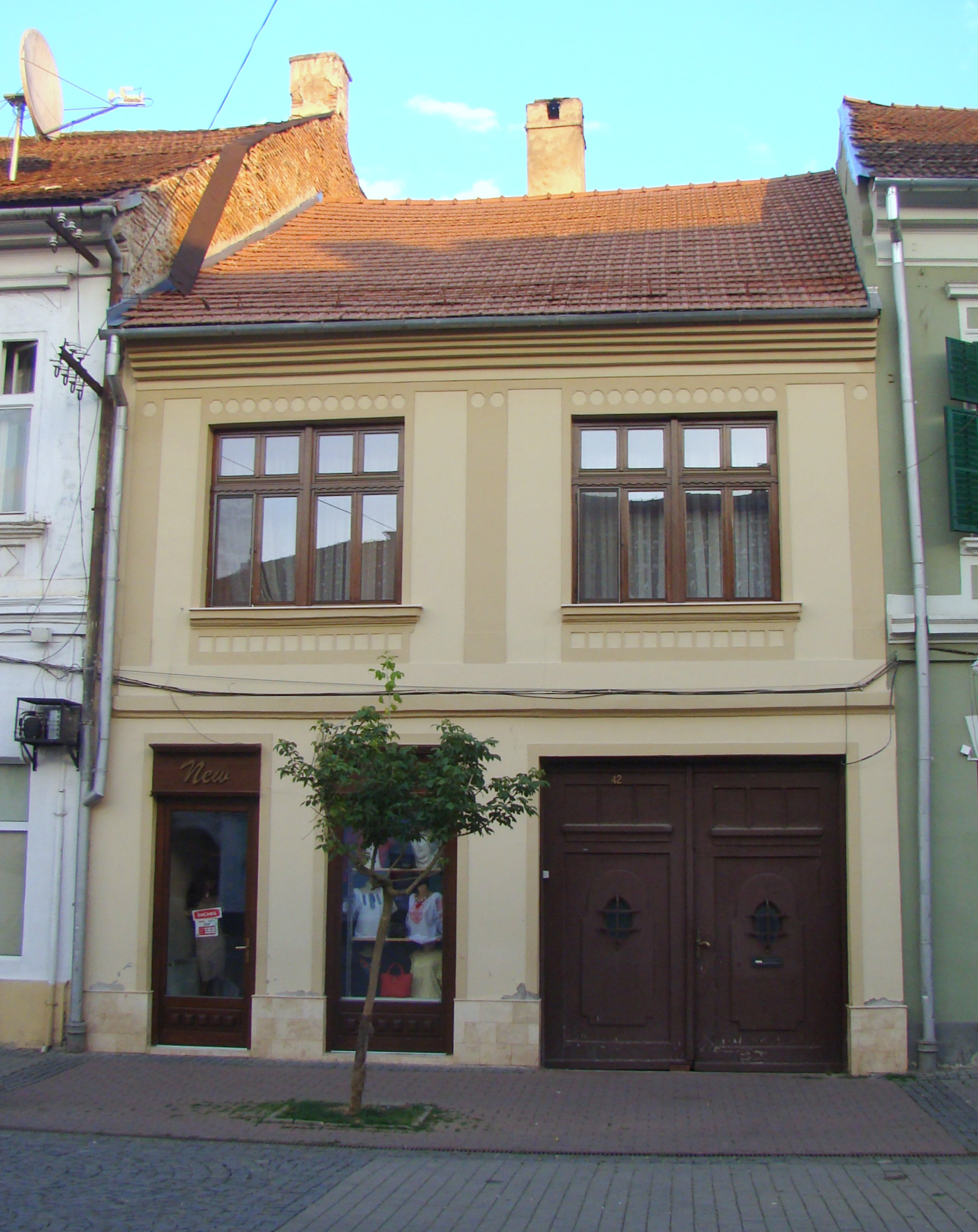 House, historic monument, in Bistrița, Liviu Rebreanu street 42